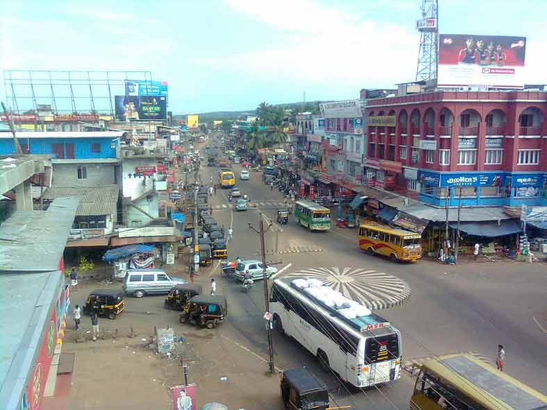 Kondotty Town's Main Junction